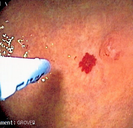 Endoscopic image of argon plasma coagulation of colonic angiodysplasia with argon plasma coagulation. Permission to place image under GFDL obtained from patient -- Samir धर्म 04:42, 17 May 2006 (UTC)